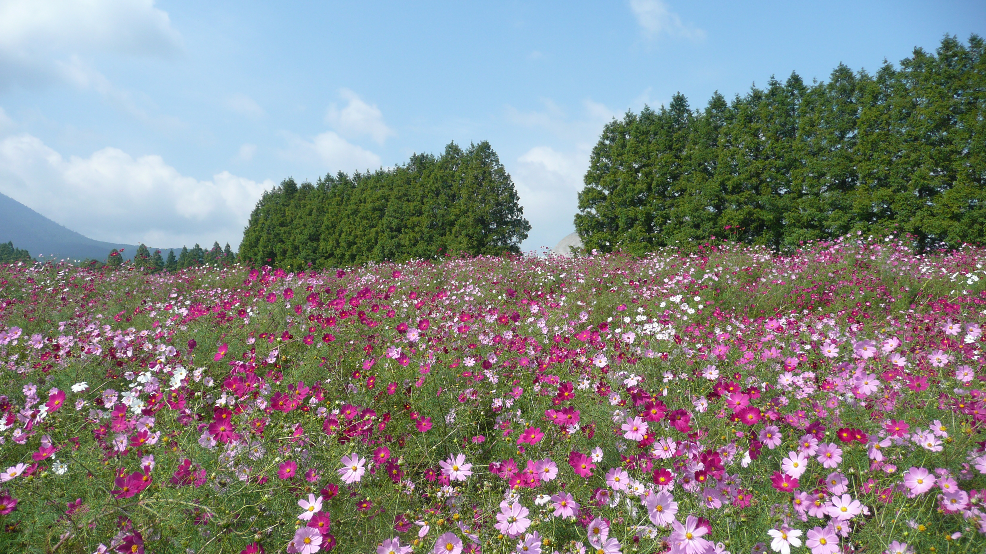 Ikoma Plateau (Kobayashi City, Miyazaki, Japan)